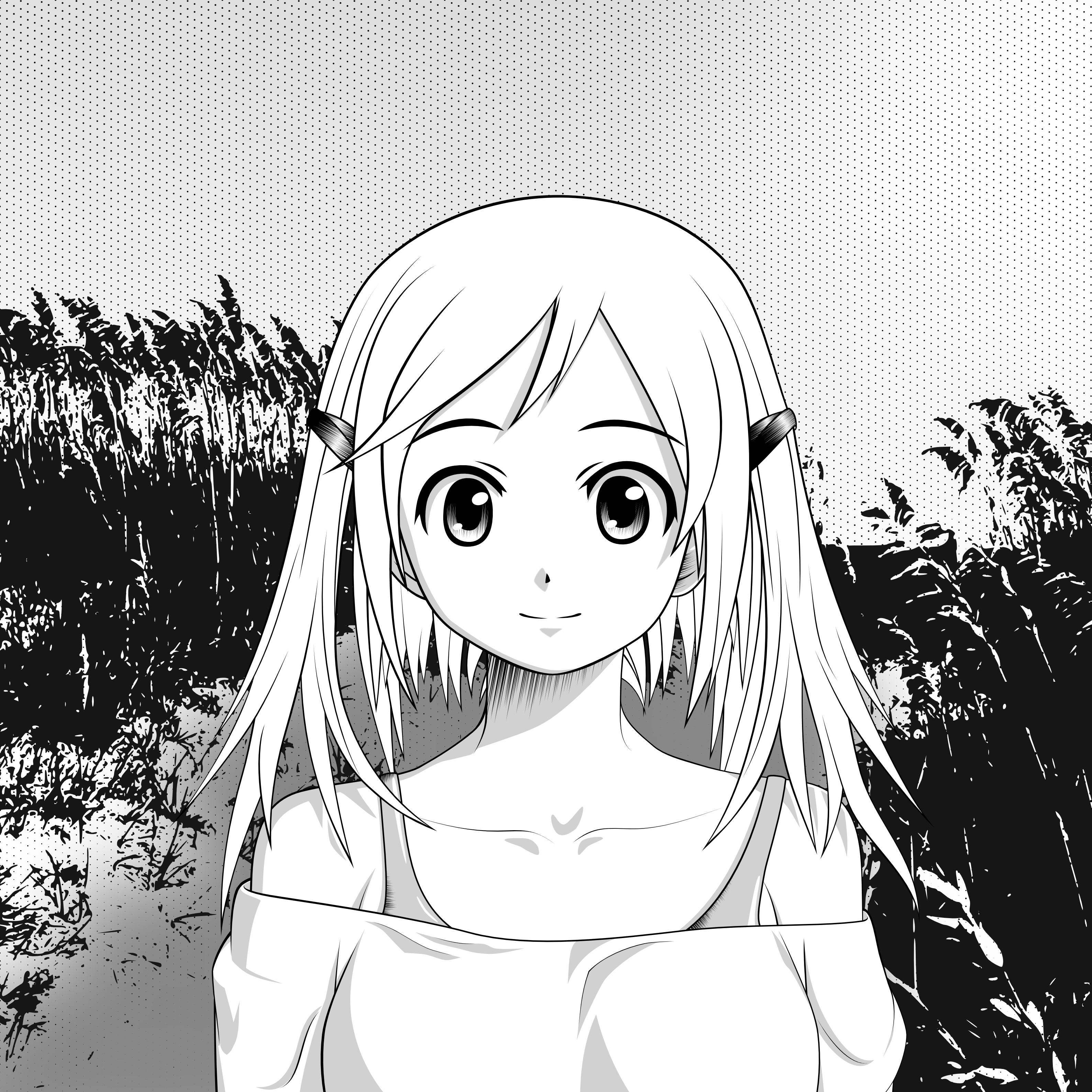 A figure drawn in manga style. Typically reduced to black and white and different patterns to compensate the lack of colors.